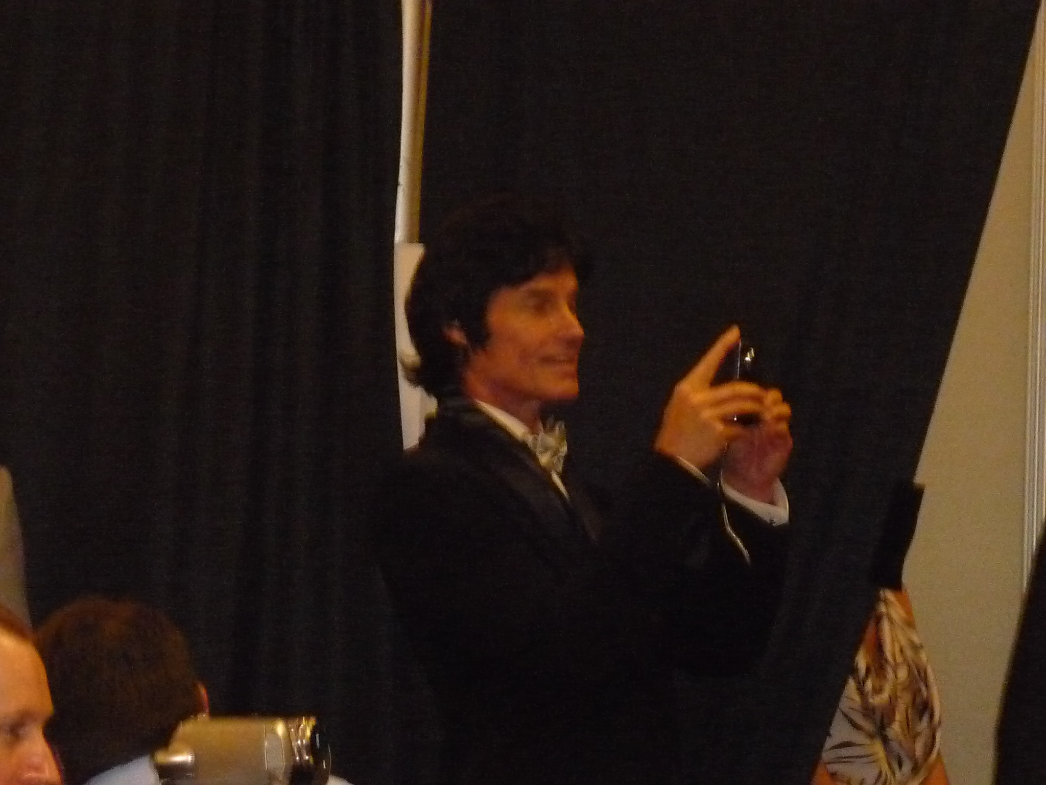 Actor Ronn Moss at the 2010 Daytime Emmy Awards.